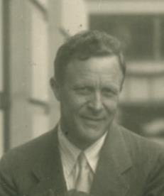 F. C. Craighead at Portland conference, June 1936. Note: This photo was taken on the front steps of the Gus J. Solomon U.S. Courthouse in Portland, Oregon. Photo by: Unknown Date: June 13, 1936 Credit: USDA Forest Service, Pacific Northwest Region, State and Private Forestry, Forest Health Protection. Collection: Bureau of Entomology and Plant Quarantine's Portland Station Collection; La Grande, Oregon. Image: PS-327 For related historical forest entomology photos, stories, and resources see the Western Forest Insect Work Conference site: For related historical program documentation see: Johnson, J. 2016. Aerial forest insect and disease detection surveys in Oregon and Washington 1947-2016: The survey. Gen. Tech. Rep. R6-FHP-GTR-0302. Portland, OR: USDA Forest Service, Pacific Northwest Region, State and Private Forestry, Forest Health Protection. 280 p. Image provided by USDA Forest Service, Pacific Northwest Region, State and Private Forestry, Forest Health Protection